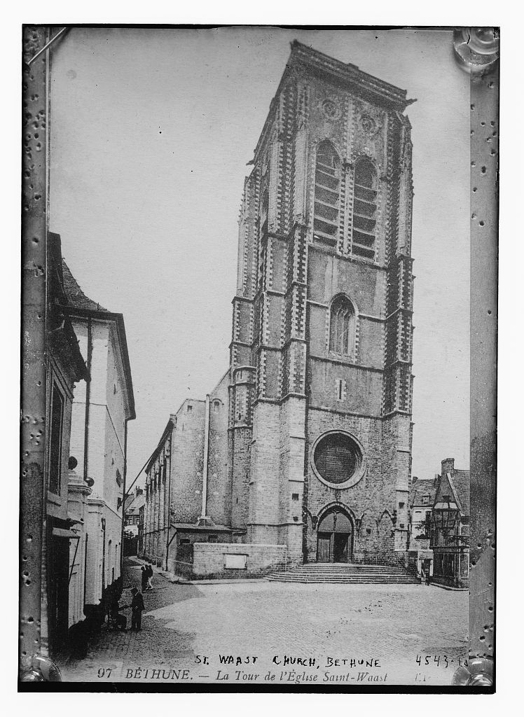 Bain News Service,, publisher. St. Waast Church, Bethune [between ca. 1915 and ca. 1920] 1 negative : glass ; 5 x 7 in. or smaller. Notes: Title from unverified data provided by the Bain News Service on the negatives or caption cards. Forms part of: George Grantham Bain Collection (Library of Congress). Format: Glass negatives. Repository: Library of Congress, Prints and Photographs Division, Washington, D.C. 20540 USA, General information about the Bain Collection is available at Higher resolution image is available (Persistent URL): Call Number: LC-B2- 4543-10